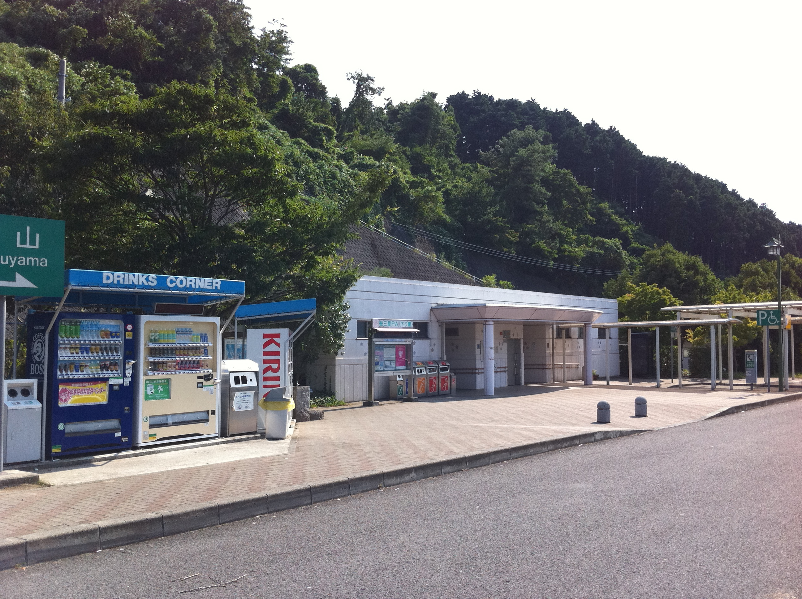 Sakurasanri Parking area in Toon-shi, Ehime pref., Japan.